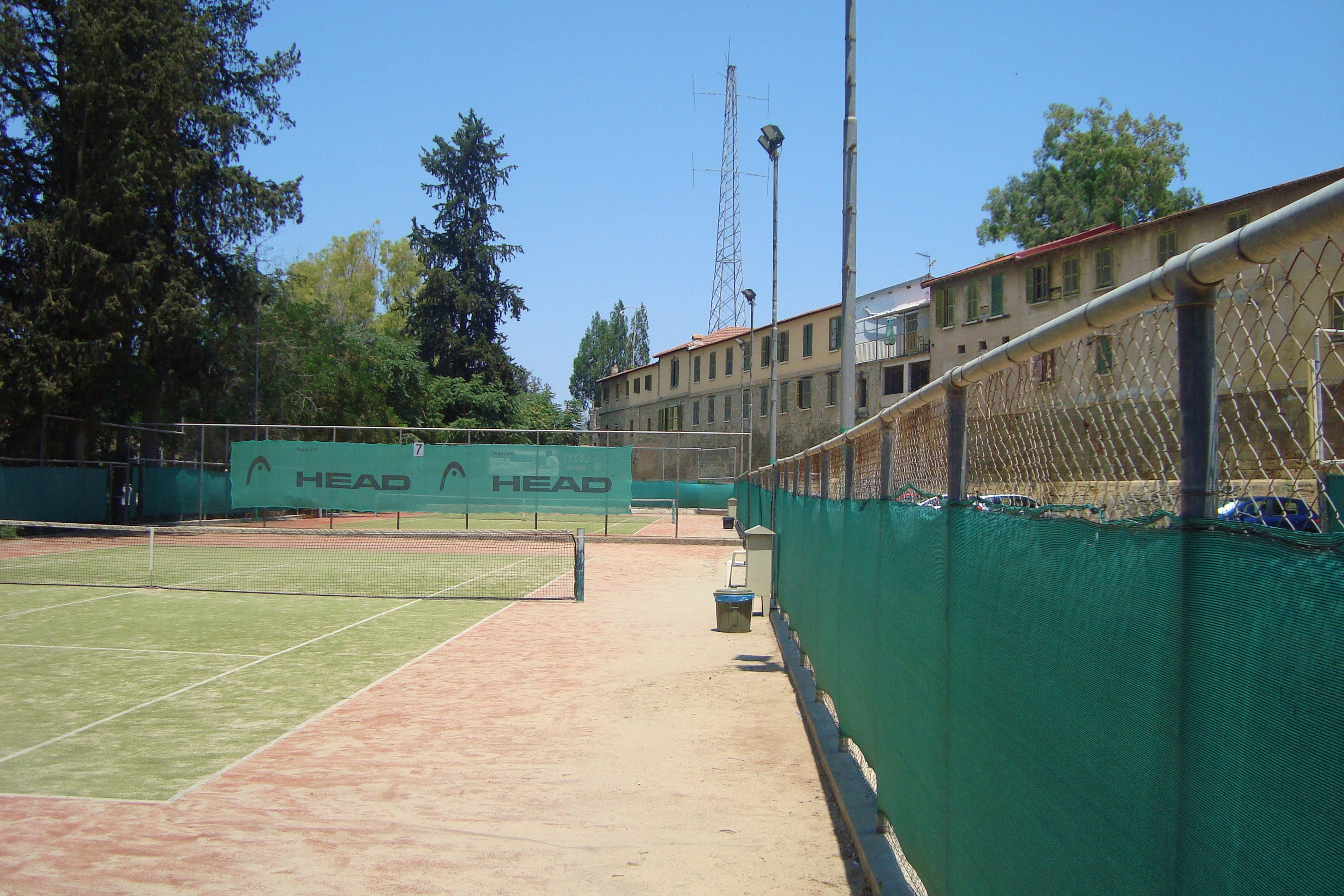 Field club tennis courts in central old part of Nicosia Republic of Cyprus